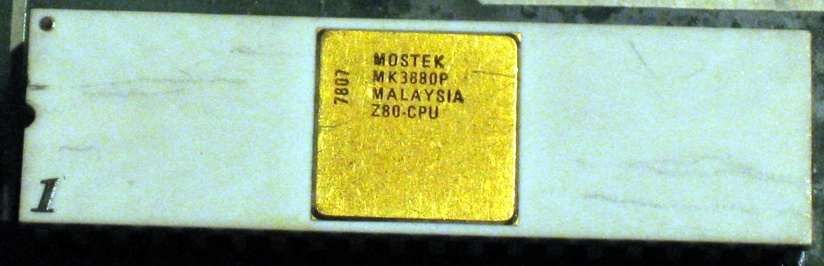 Mostek Z80 Microprocessor MK3880